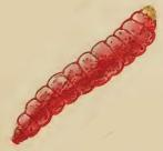 Stainton’s Natural History of the Tineina (1855–1873): Leucospilapteryx omissella